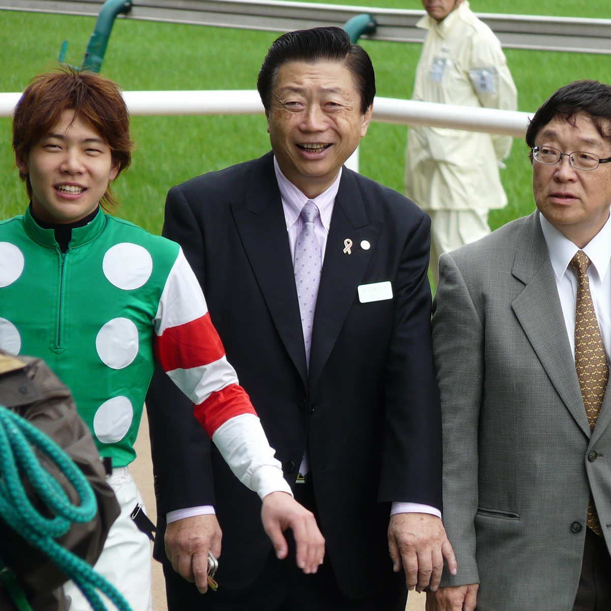 Yuichi-Odagiri20110423